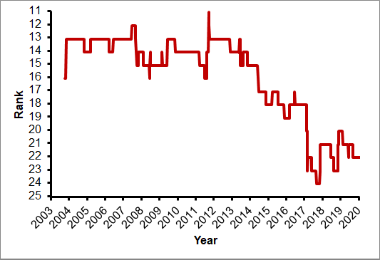 IRB World Rankings from